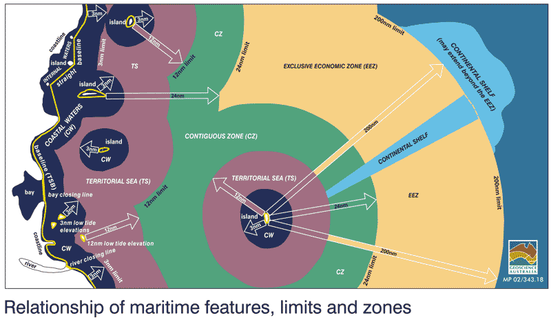 Graphic representation of maritime features, limits and zones